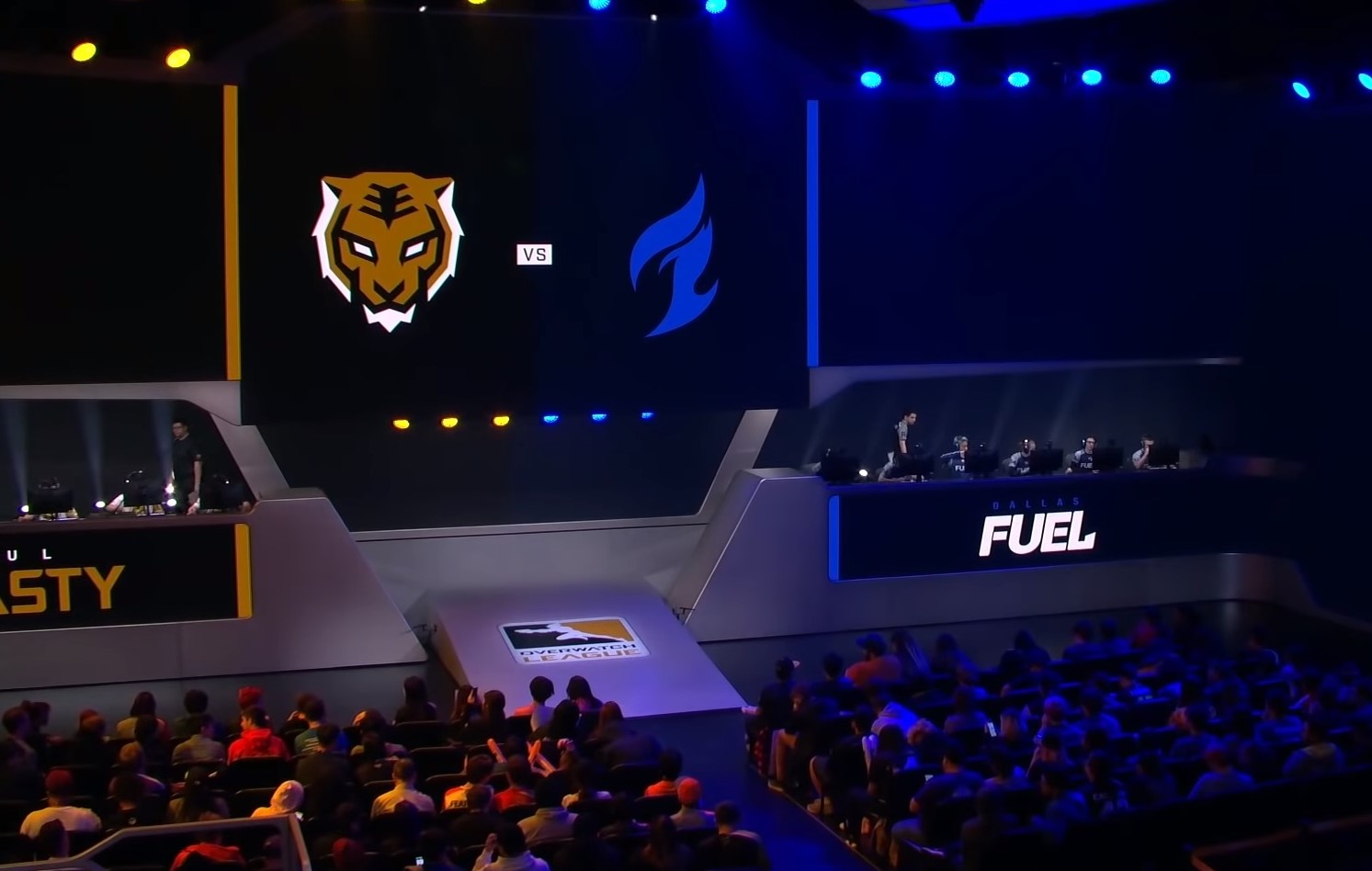 Seoul Dynasty versus Dallas Fuel on February 17, 2019 at the Blizzard Arena.